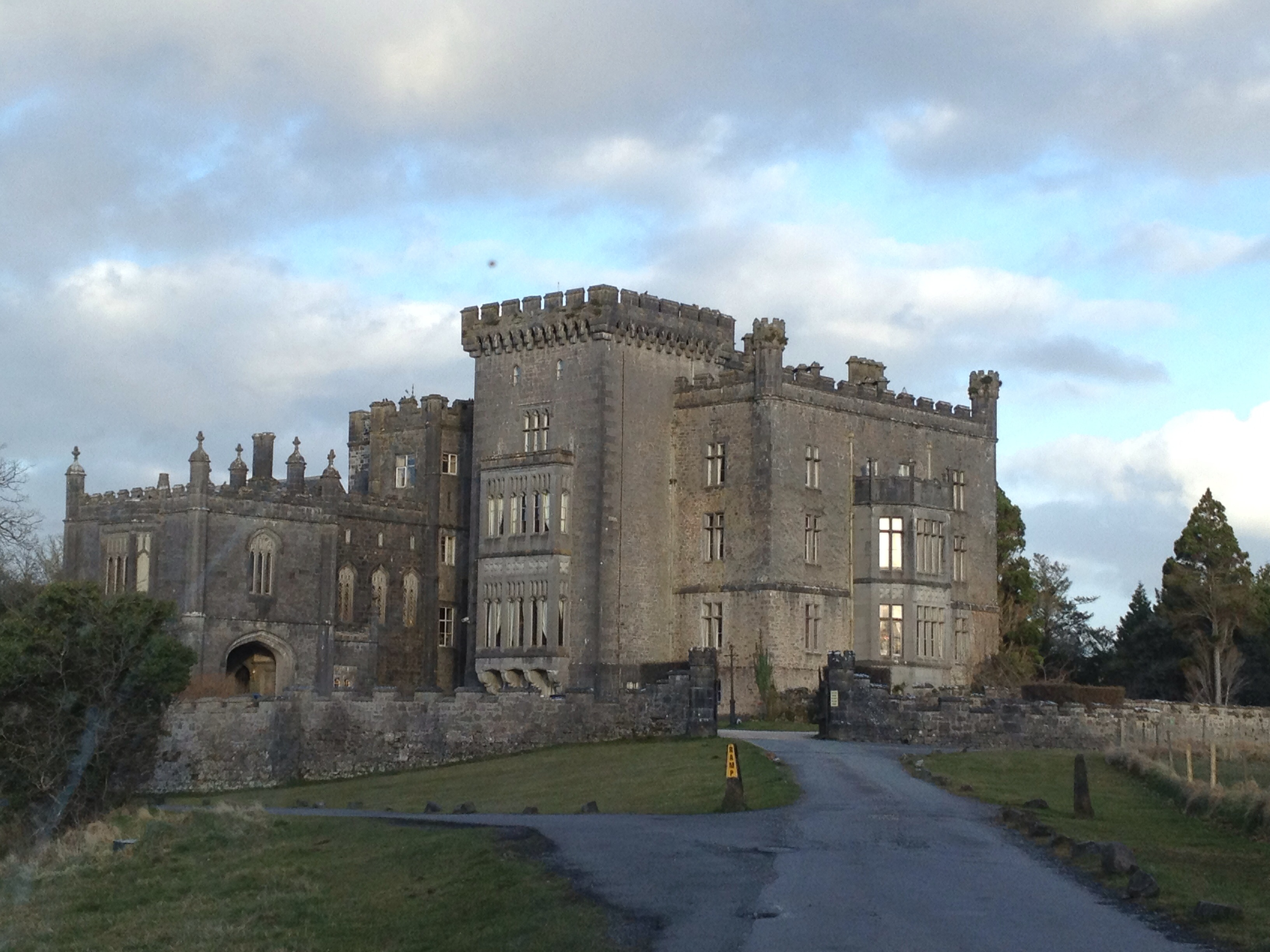 Markree Castle